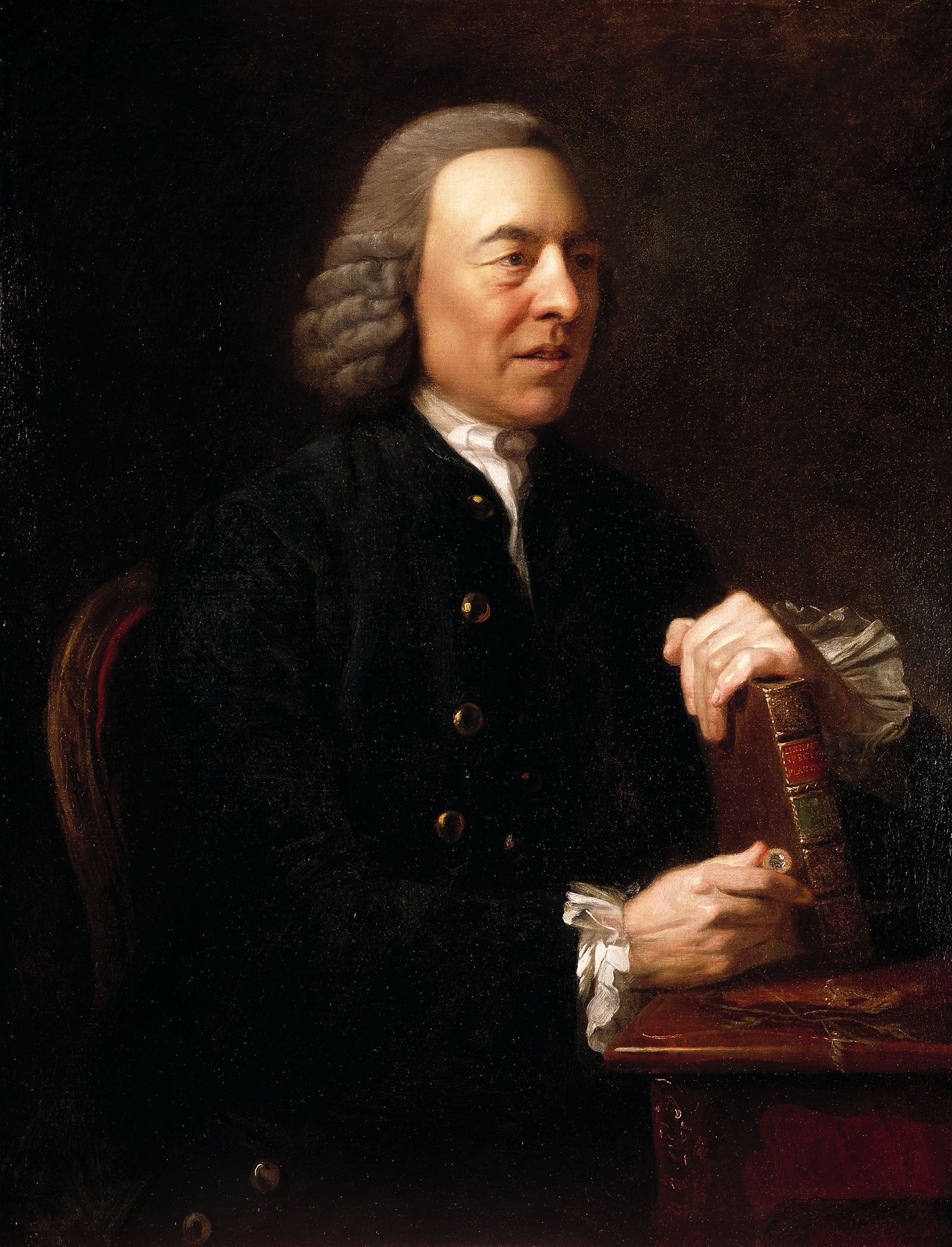 Portrait of Benjamin Stillingfleet